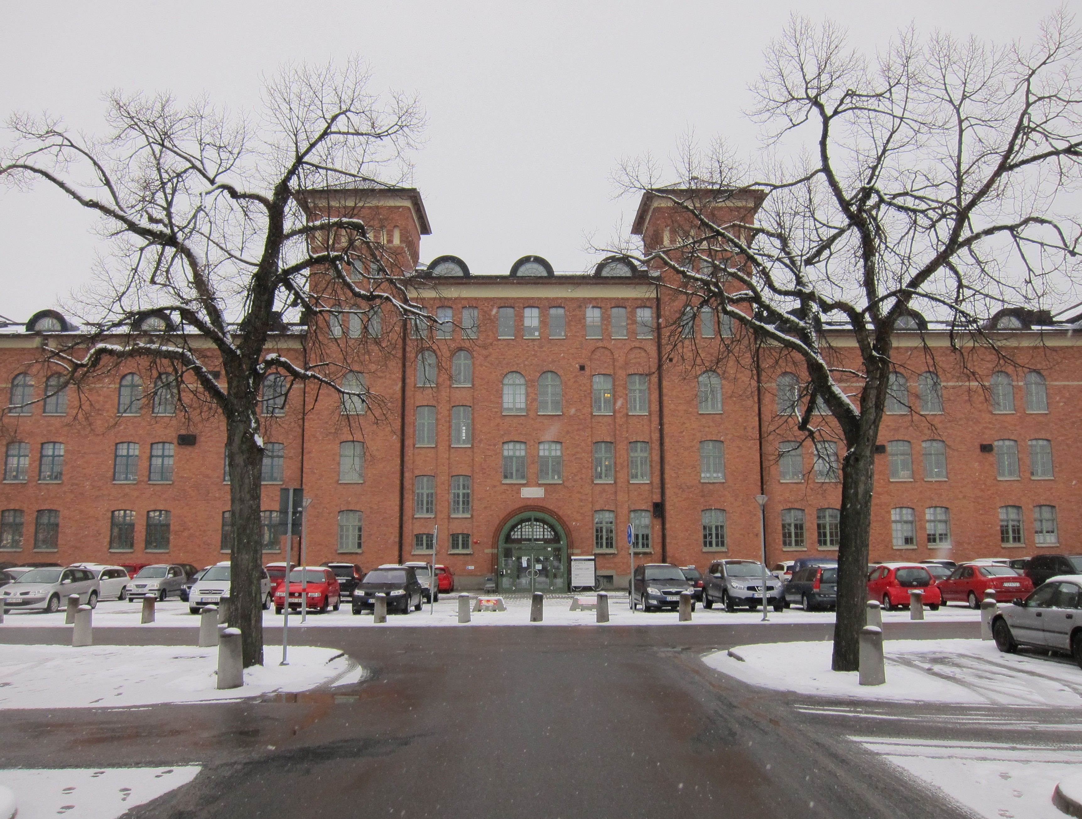 Earlier artillery regiment A6, Jönköping, Sweden, Main building.